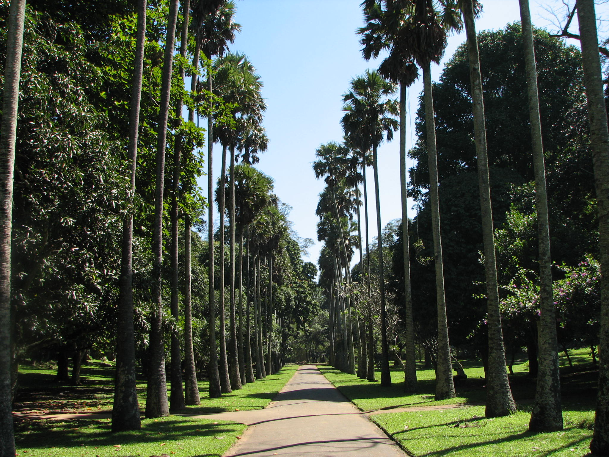 Botanical Garden of Peradeniya, Sri Lanka